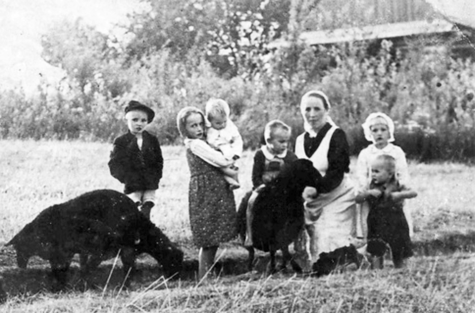 Wiktoria Ulma with her children, wife of Józef Ulma, Polish World War II heroes killed summarily for hiding Jews in their home, named Righteous among the Nations by Yad Vashem posthumously.